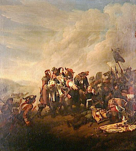 Death of Marshall Turenne. 27 of July 1675